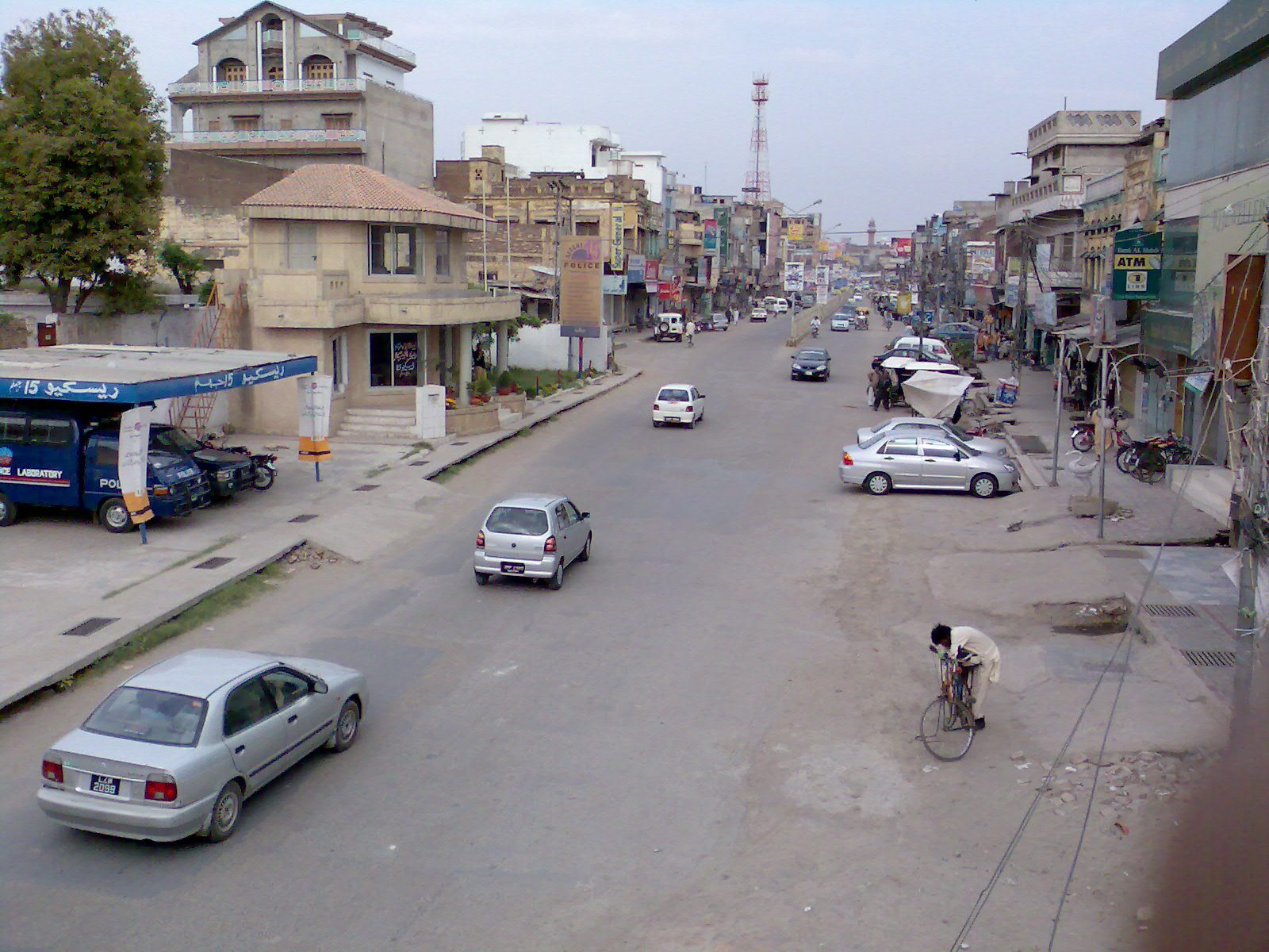 A view of Railway Road, Jhelum